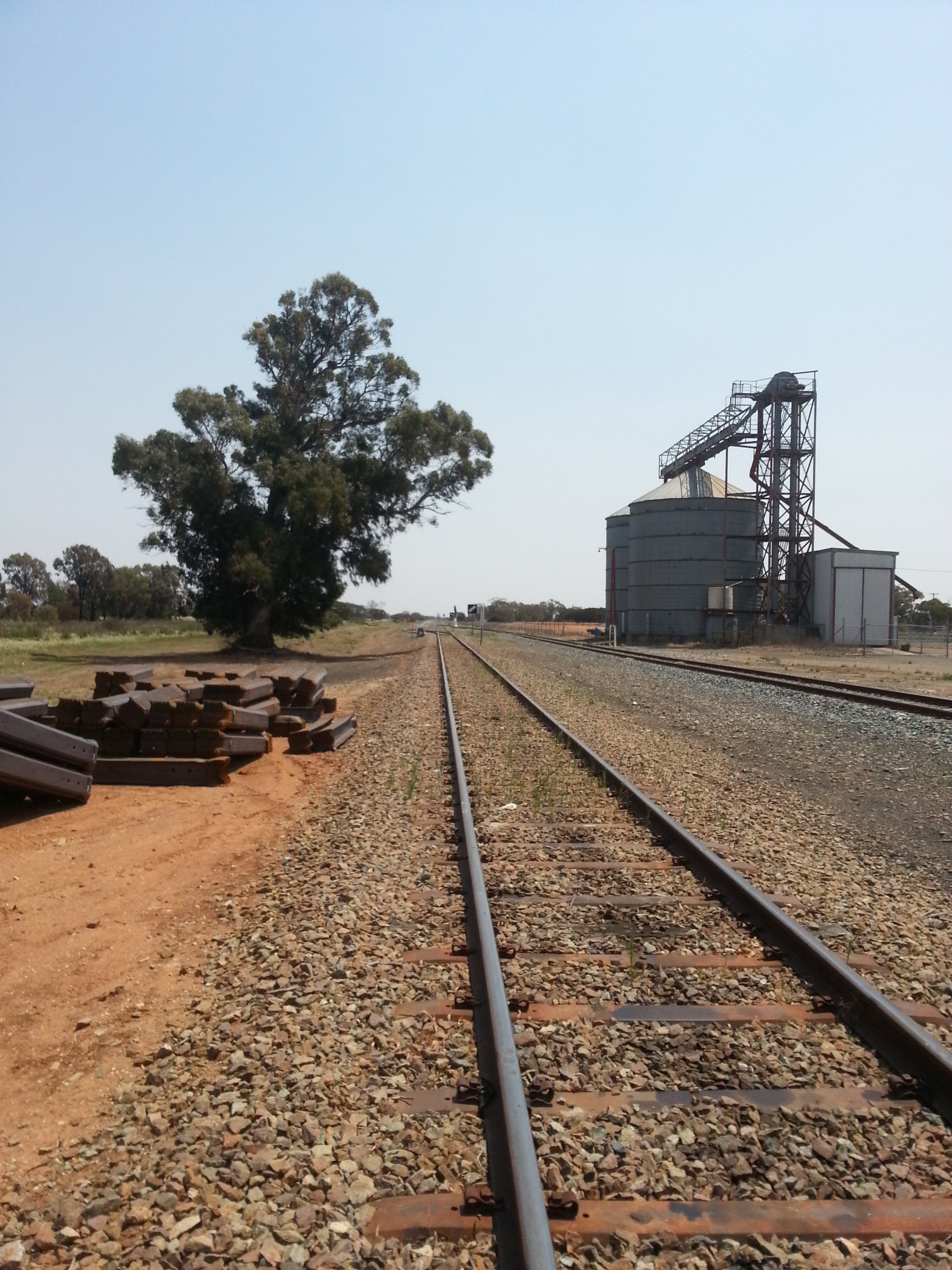 Ungarie railway yard - Looking north towards grain storage silos